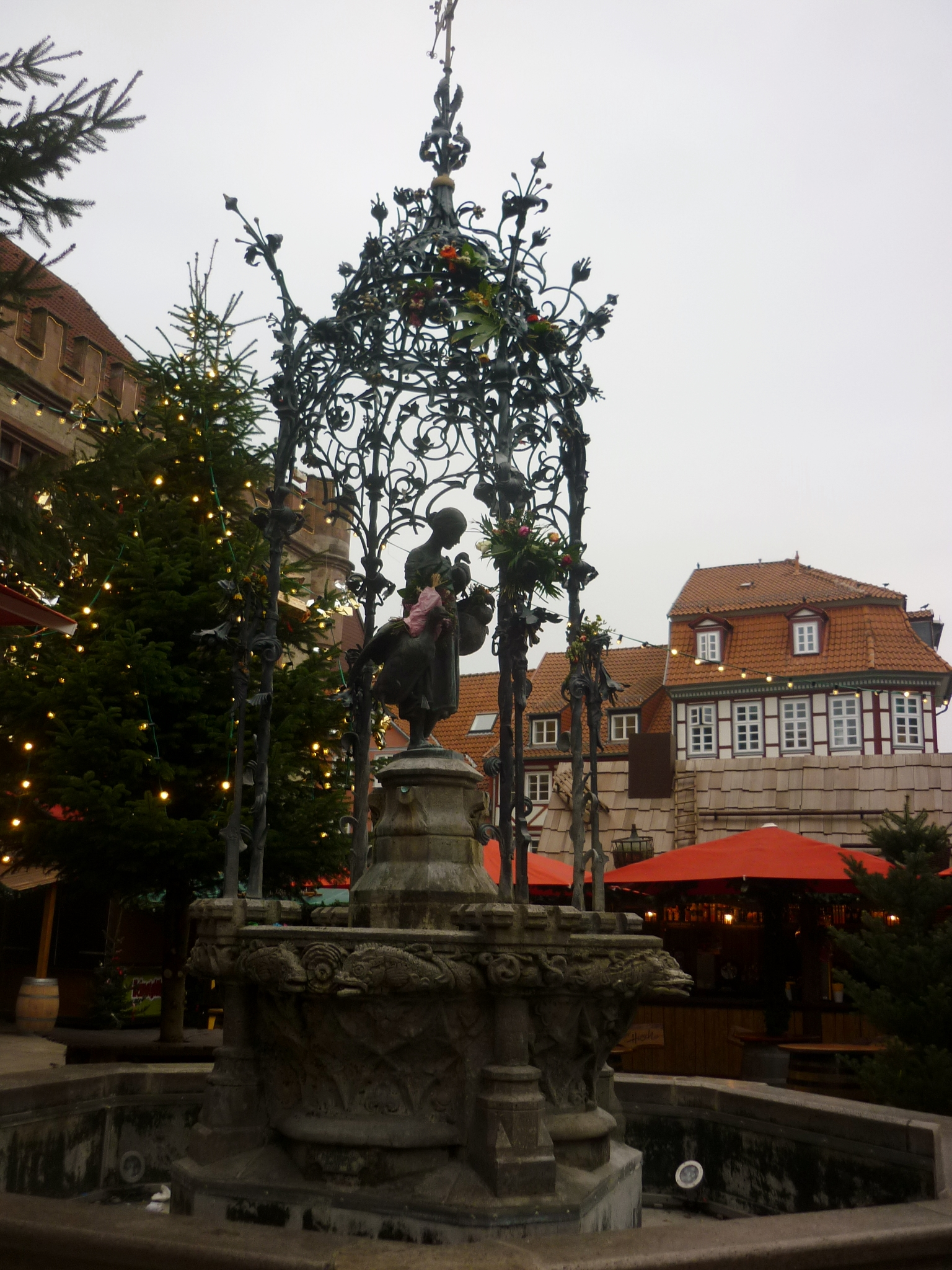 Gänseliesel standpipe in Göttingen during Christmas Market